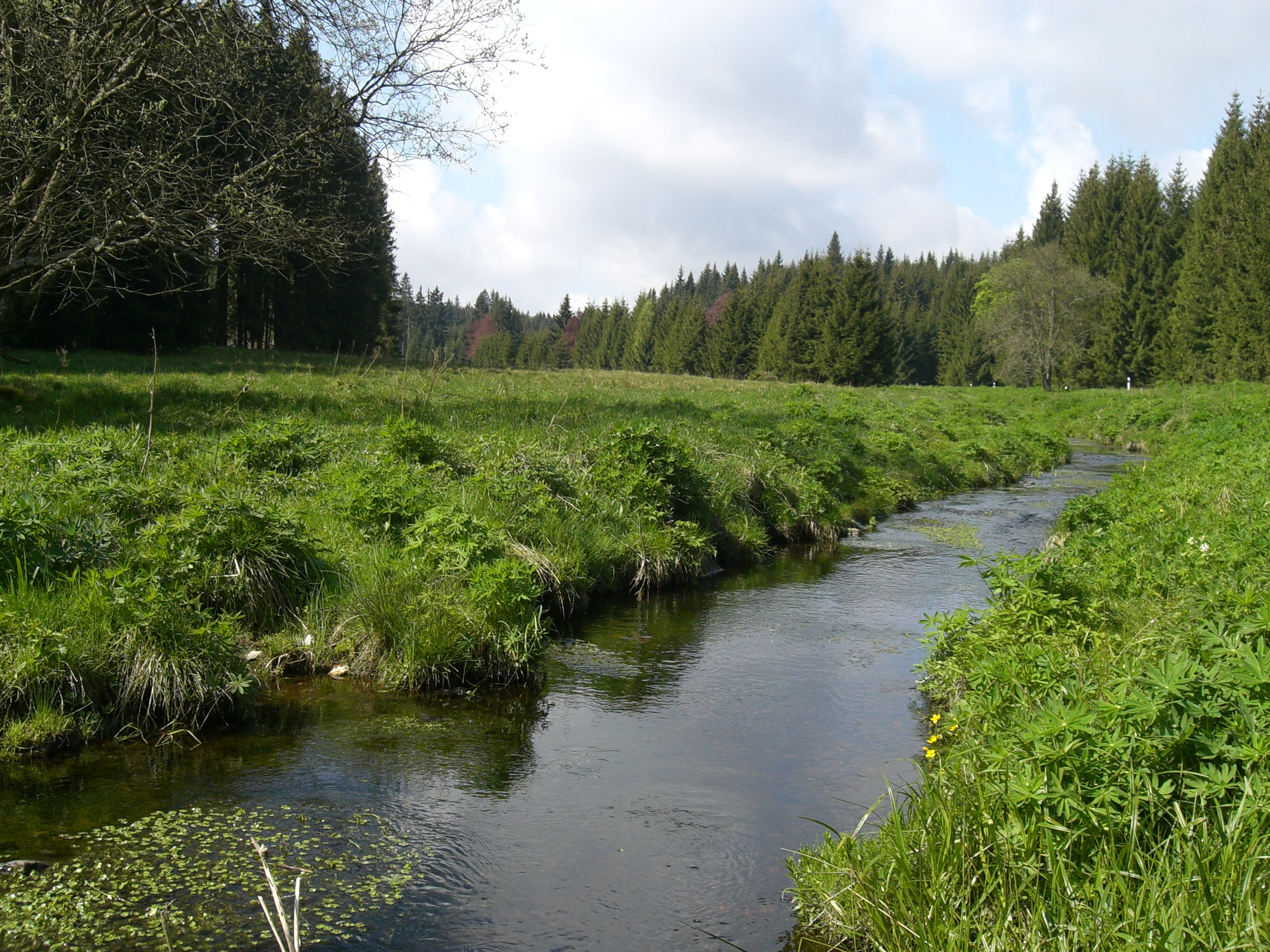 Slavkovský les, Czech Republic. 50°2'12.23"N,12°42'27.6"E